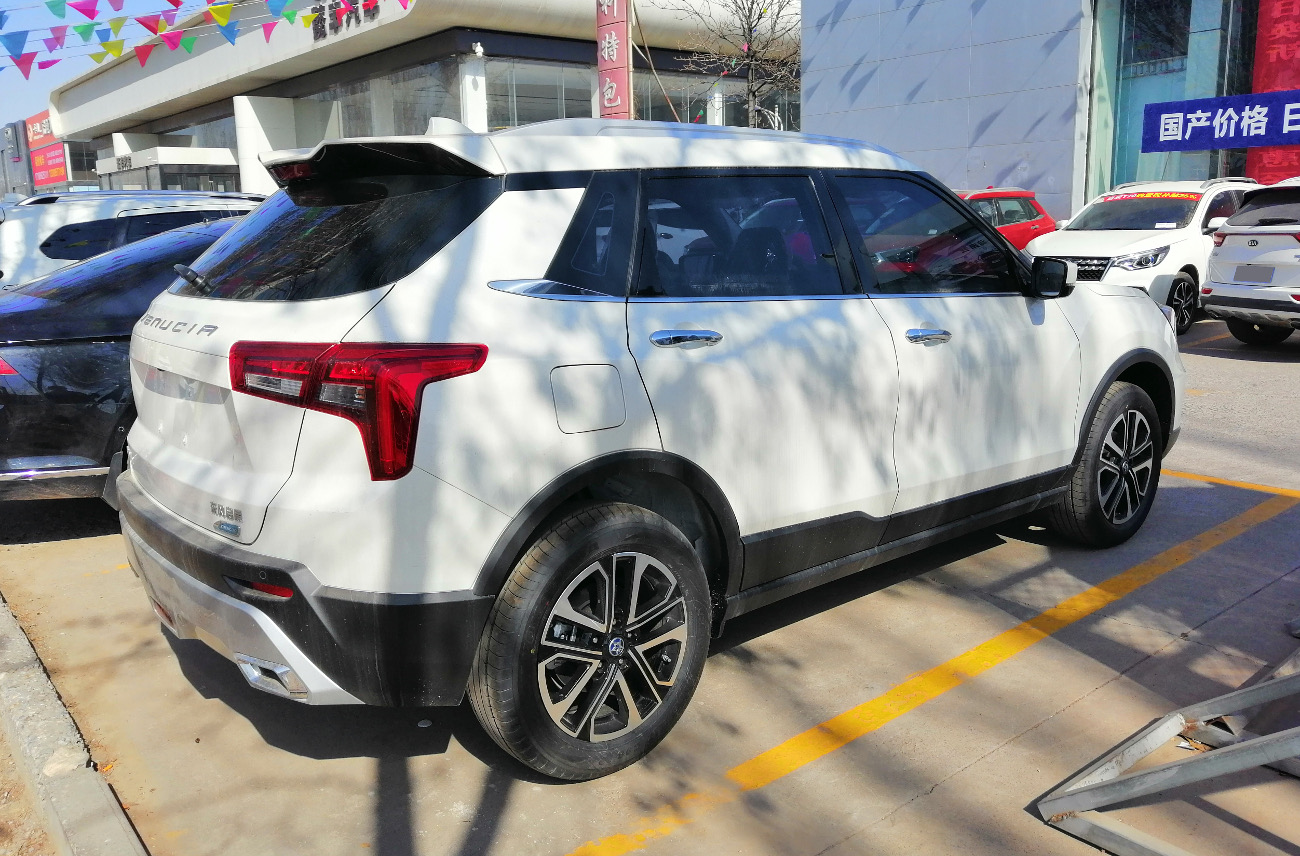 Venucia T60 photographed in Yinchuan, Ningxia autonomous region, China.